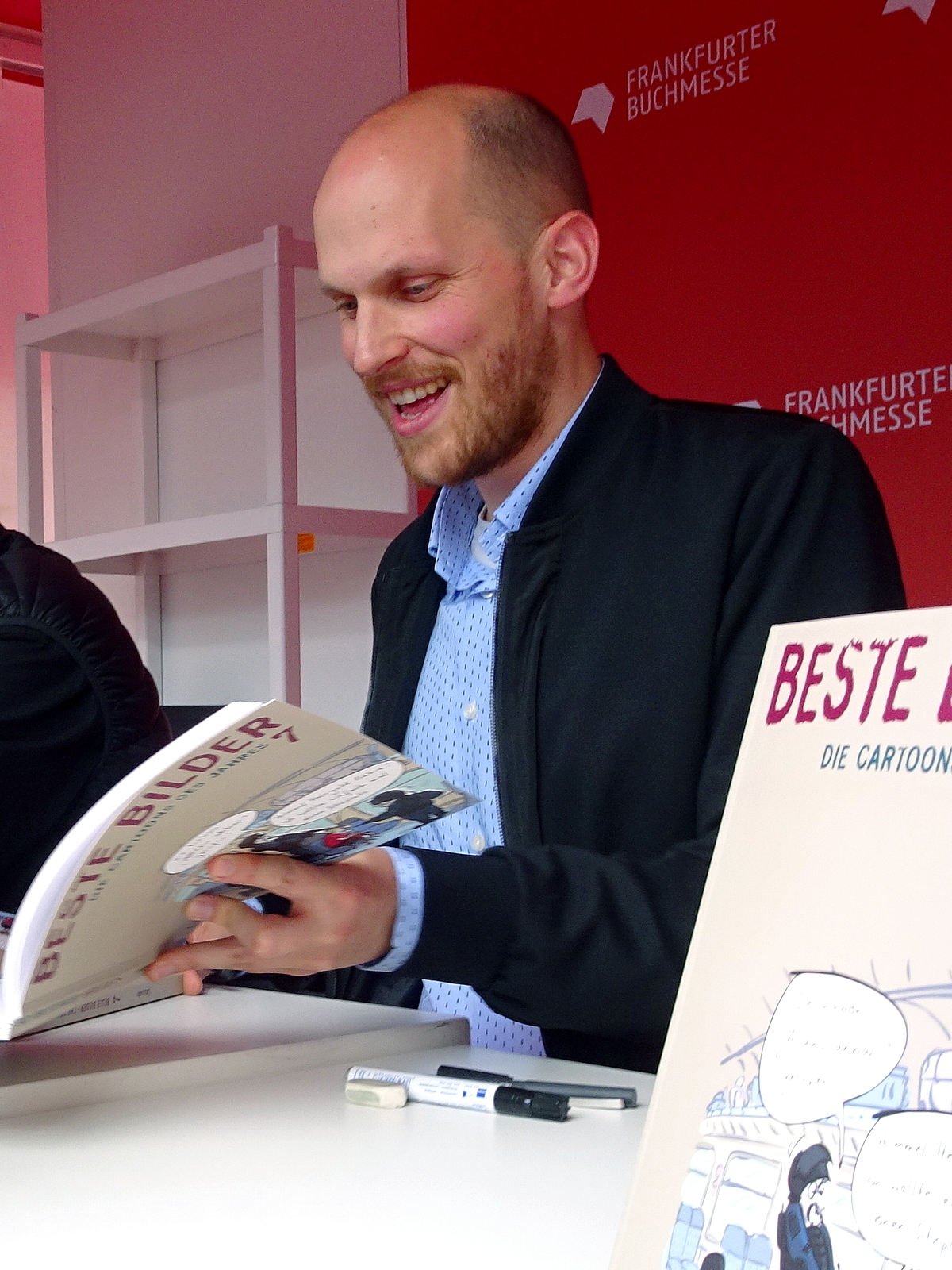 Leonard Riegel, winner of the German Cartoon Prize 2016 at the Frankfurt Book Fair